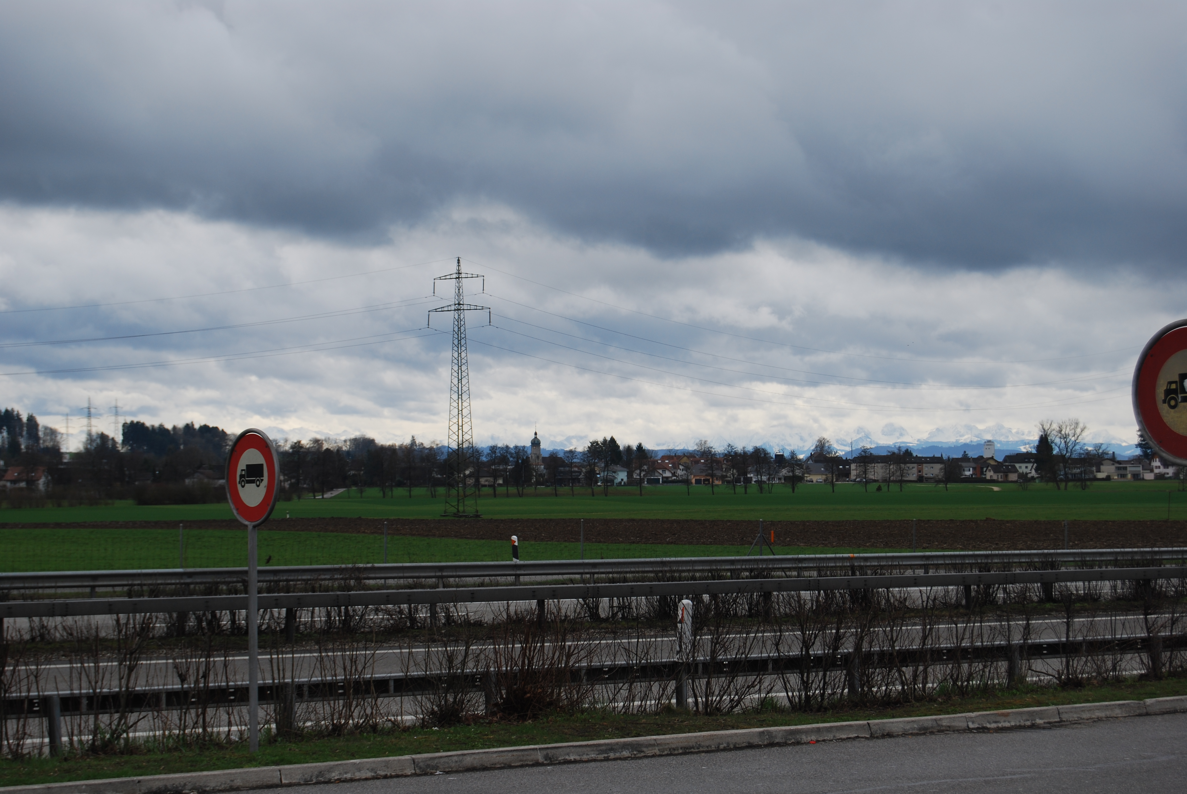 Deitingen seen from the highway service area Deitingen Nord, canton of Solothurn, SwitzerlandEsperanto: Deitingen vidita de la aŭtovojrestadejo Deitingen Nordo, Kantono Soloturno, Svislando